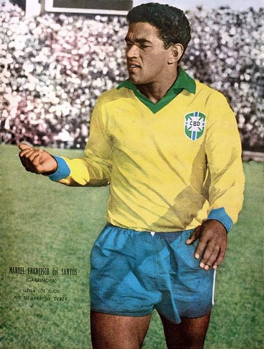 Brazilian football player, Manoel Francisco dos Santos (Garrincha), during the 1962 FIFA World Cup.